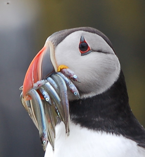 Puffin (Fratercula arctica) (2) A close up view of a Puffin and its staple diet, Sand eels